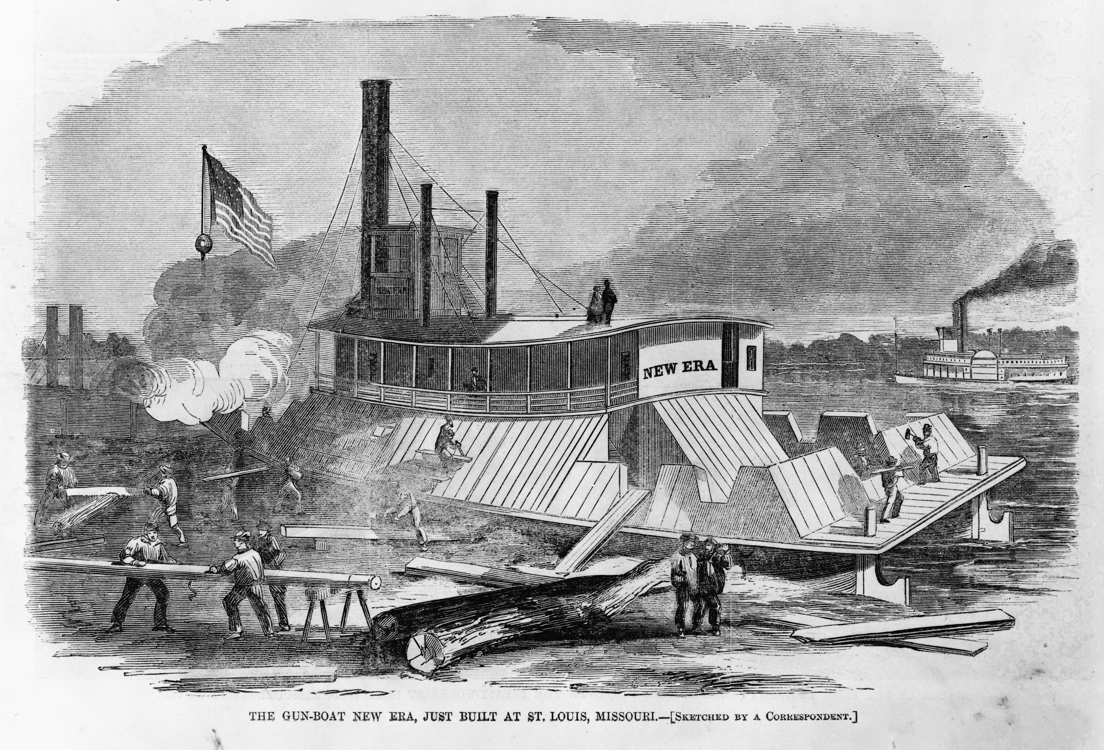 Newspaper illustration depicting the gunboat USS New Era, later USS Essex in the final stages of completion in St. Louis, Missouri in 1861.